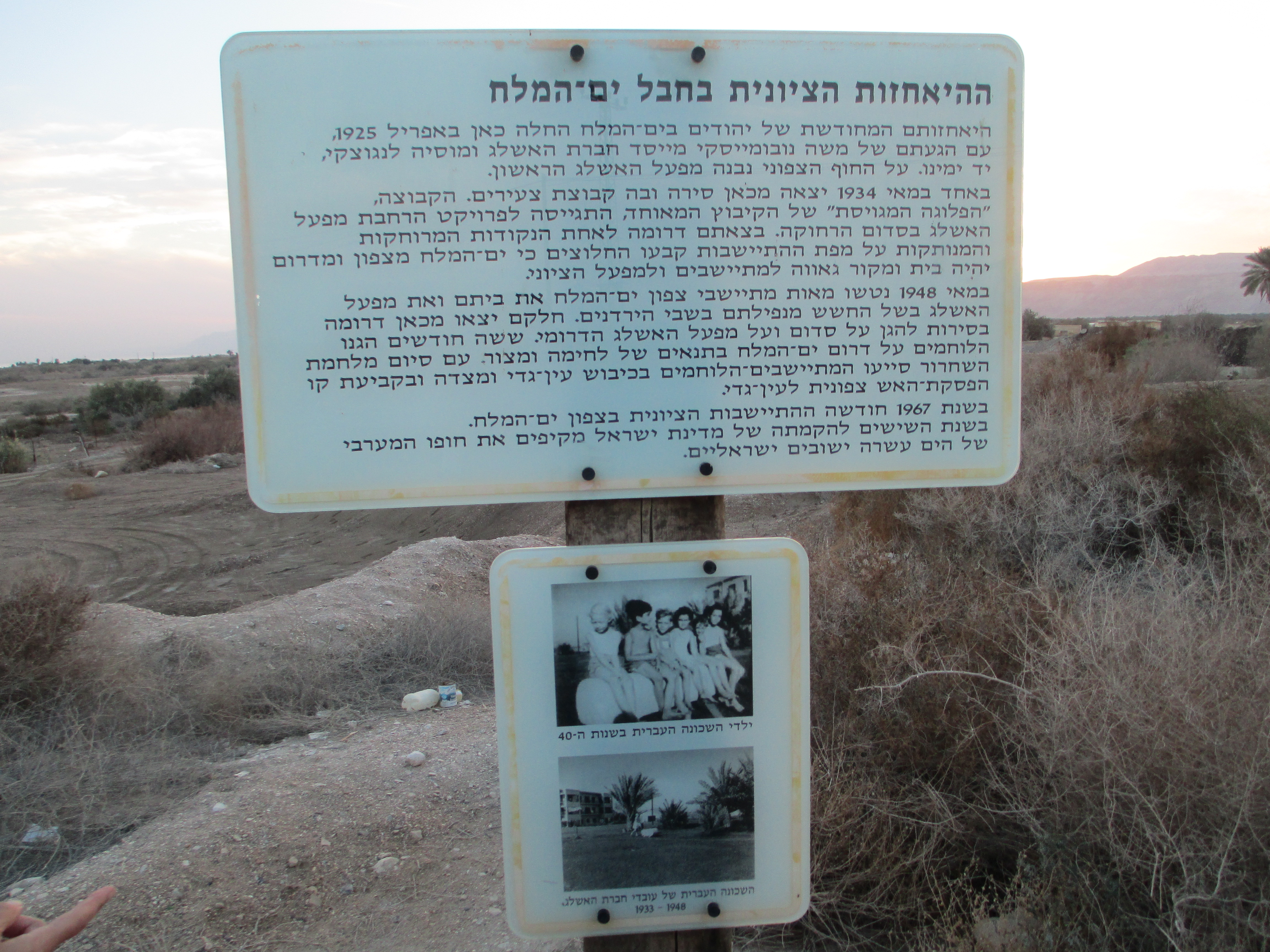 Memorial to Palestine Potash company by the Dead Sea